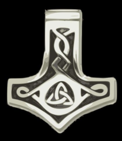 Mjöllnir, symbol of all the Heathen faiths. Gray version with carvings on black background.